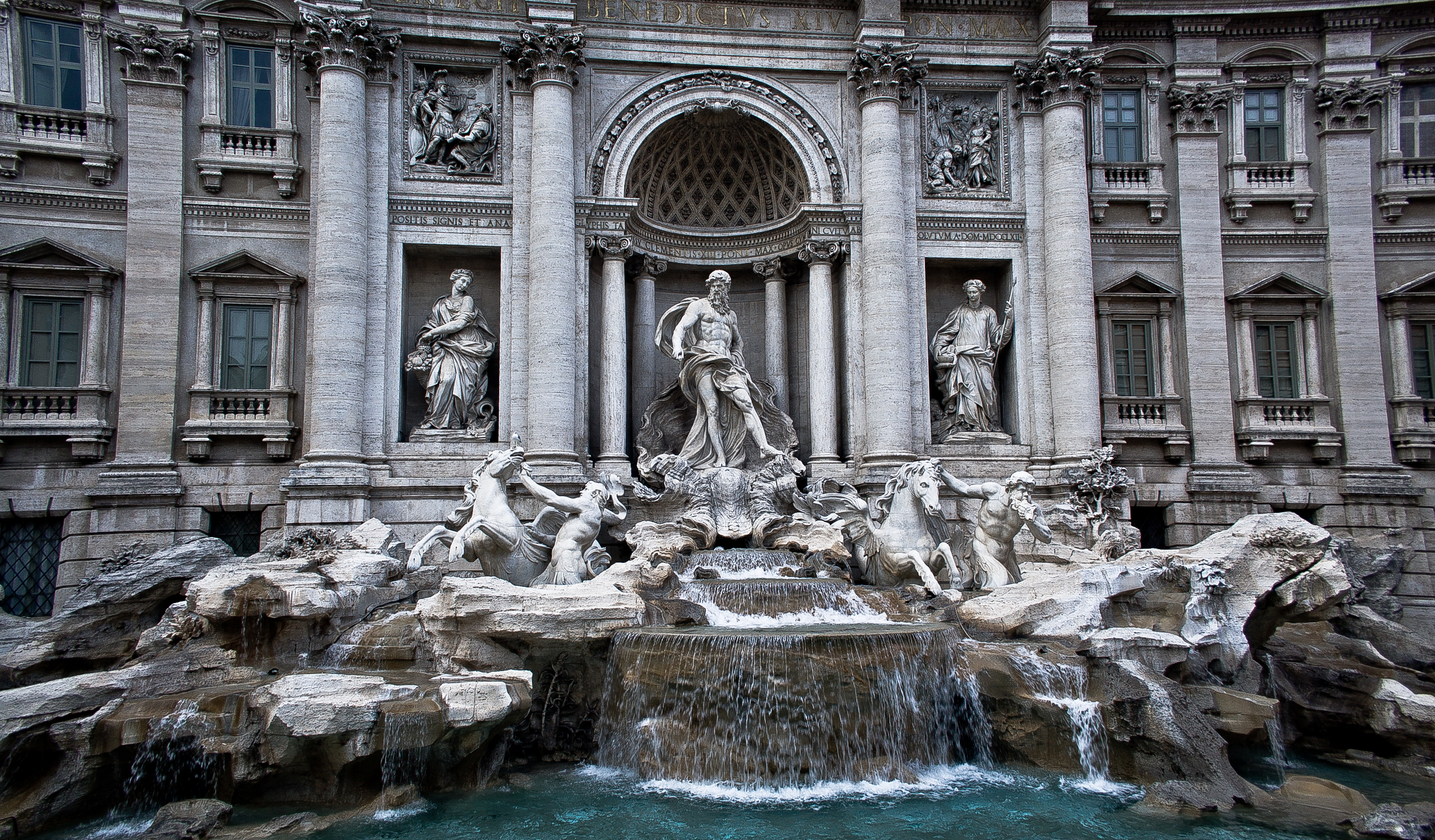 Picture depicting the Trevi Fountain